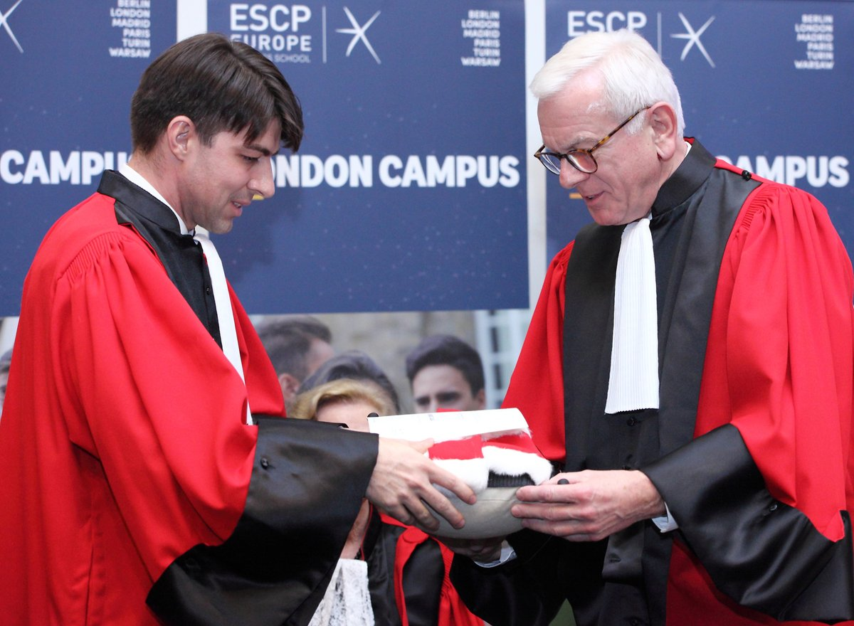 Hans-Gert Pöttering, Andreas Kaplan, Doctor Honoris Causa, ESCP Europe